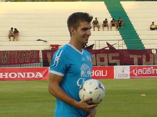 Sergio Suárez in 2014 before a Thai FA Cup match